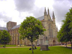 Winchester Cathedral from the side, taken by CGS on June 11 en:2003. Public domain.